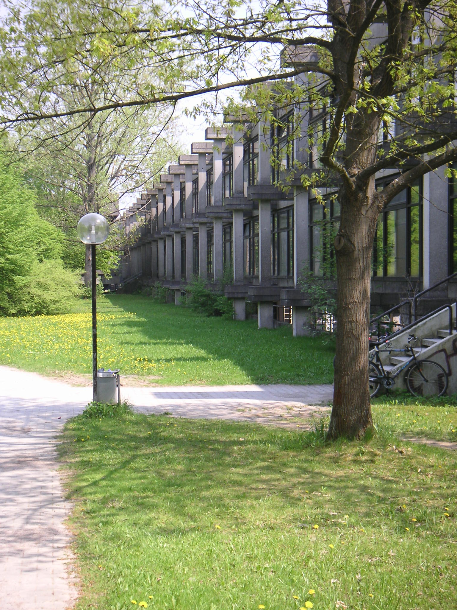 Regensburg, university, faculty of physics, example for the architecture.